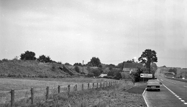 Site of Bromham & Rode Halt. View eastward, towards Devizes and Patney & Chirton; ex-Great Western, Patney & Chirton - Devizes - Holt Junction line, closed completely 18/4/66; no trace of Halt on remaining embankment. (My Morris 1800 parked in lay-by).